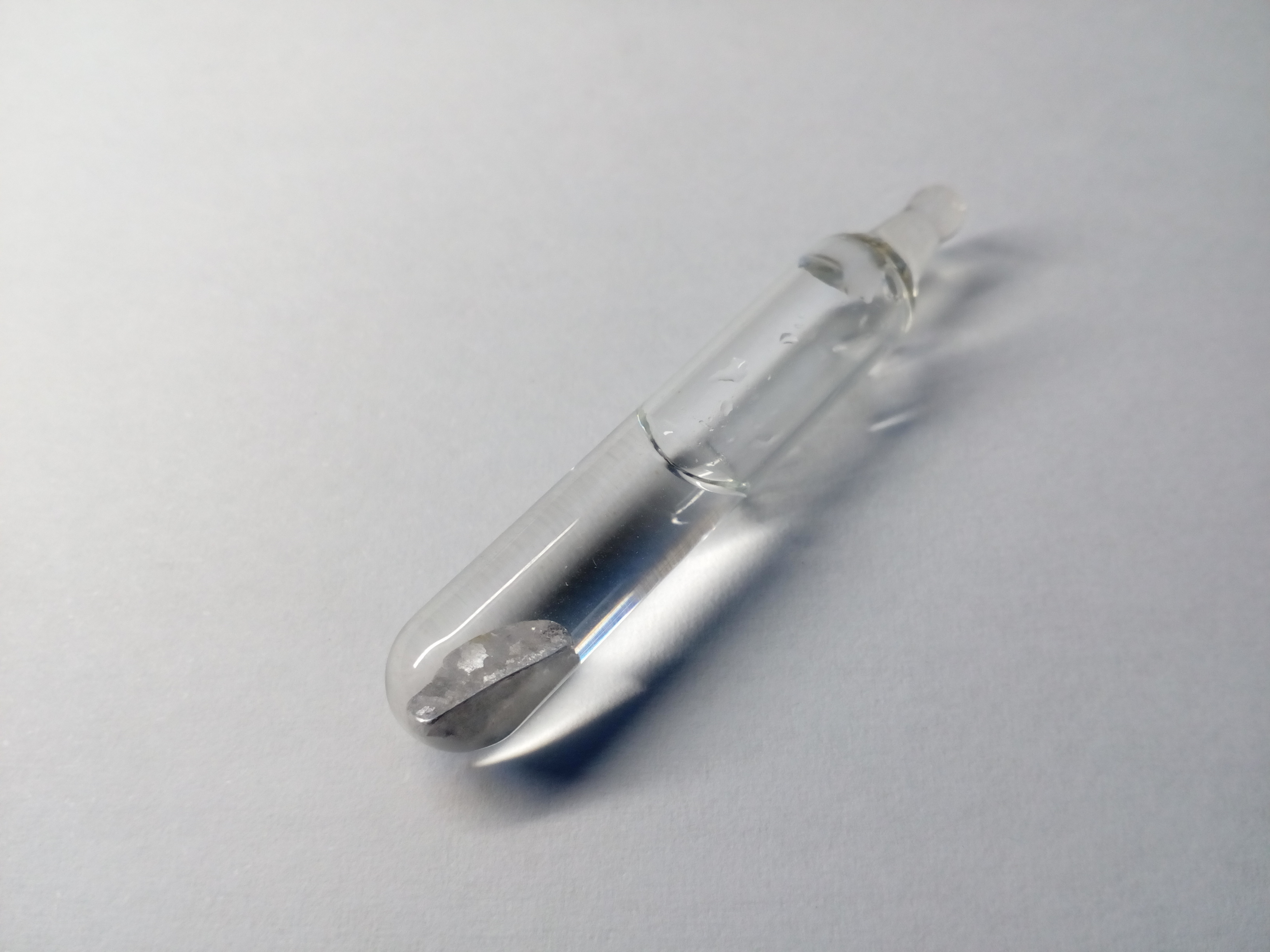 0.32g of 99.999%(5N) thallium sample sealed in a tiny ampoule under oxygen-free water. Thallium only gets attacked by water when oxygen exists.